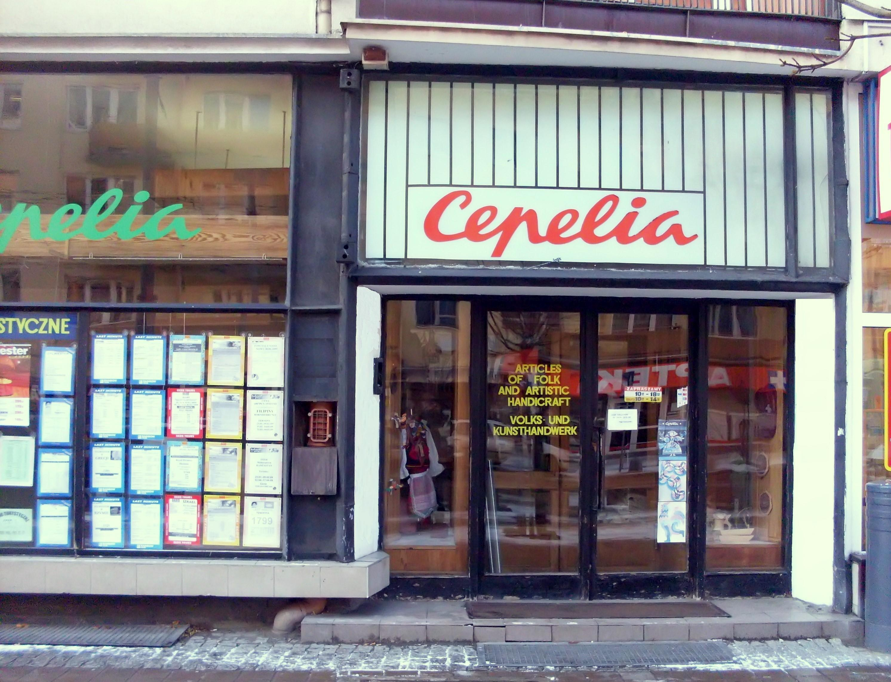 Cepelia Shop at ulica Świętojańska, Gdynia. Shop with arts of polish folklor.